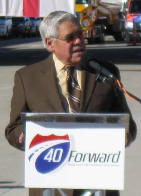 Neal McCaleb, Oklahoma's former Secretary of Transportation, speaking at the opening ceremonies of the new Oklahoma City Crosstown Expressway.